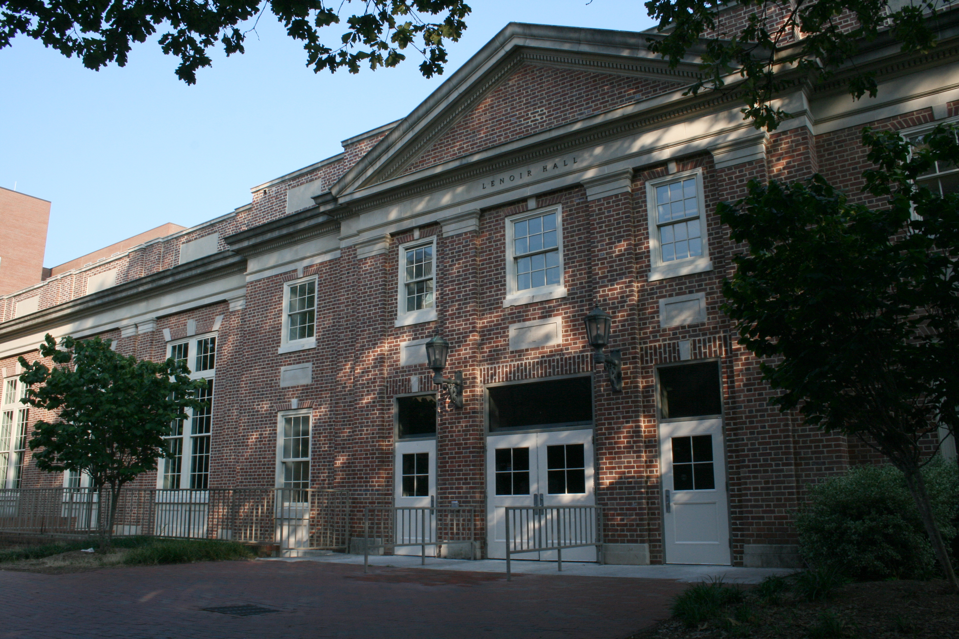 Lenoir Hall, which houses a food court and a cafeteria, at UNC.